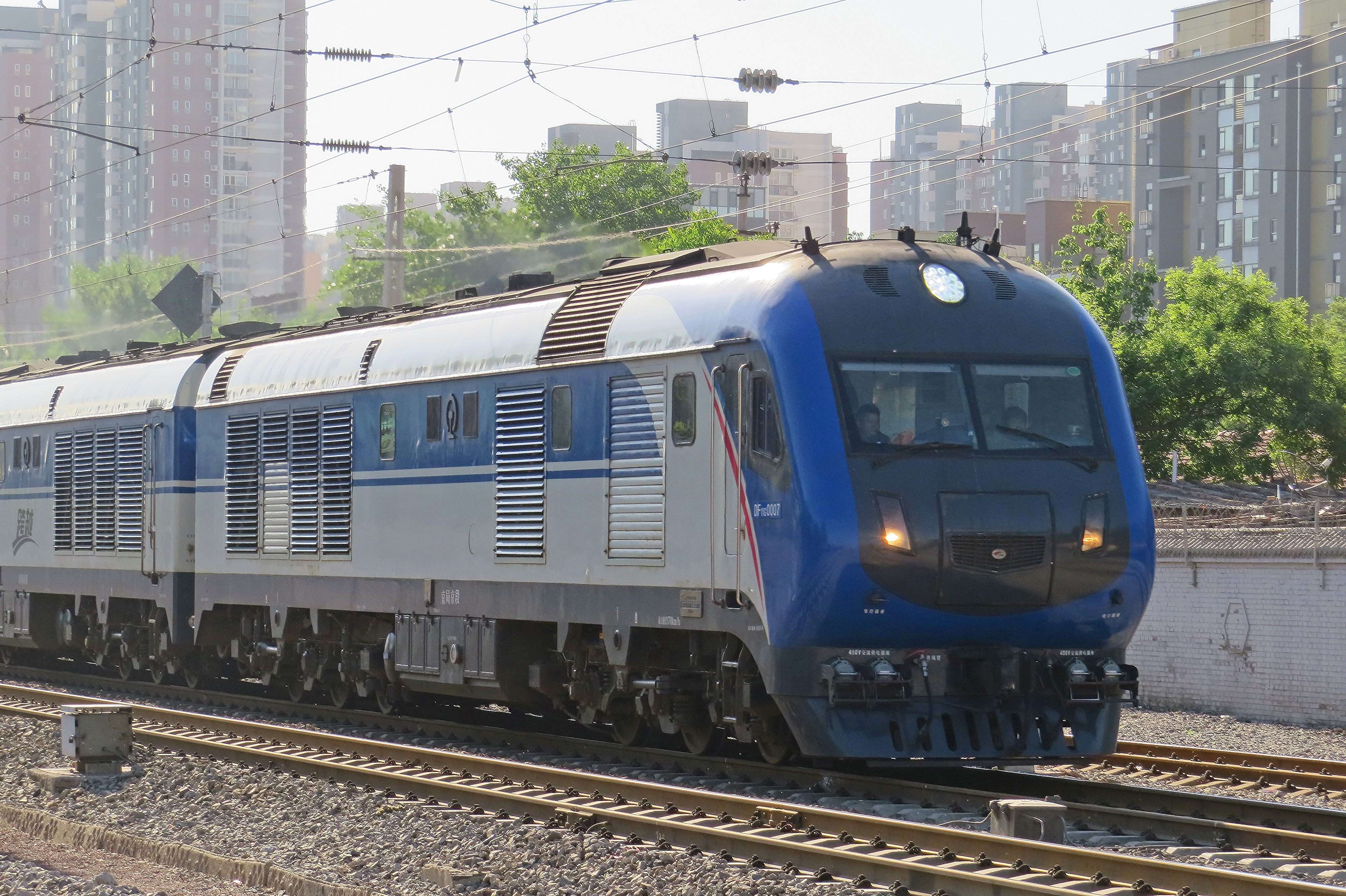 Z64 from Changchun, also suffered from delays.